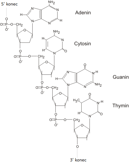 DNA strand showing Chemical structure of nucleic Acid Bases